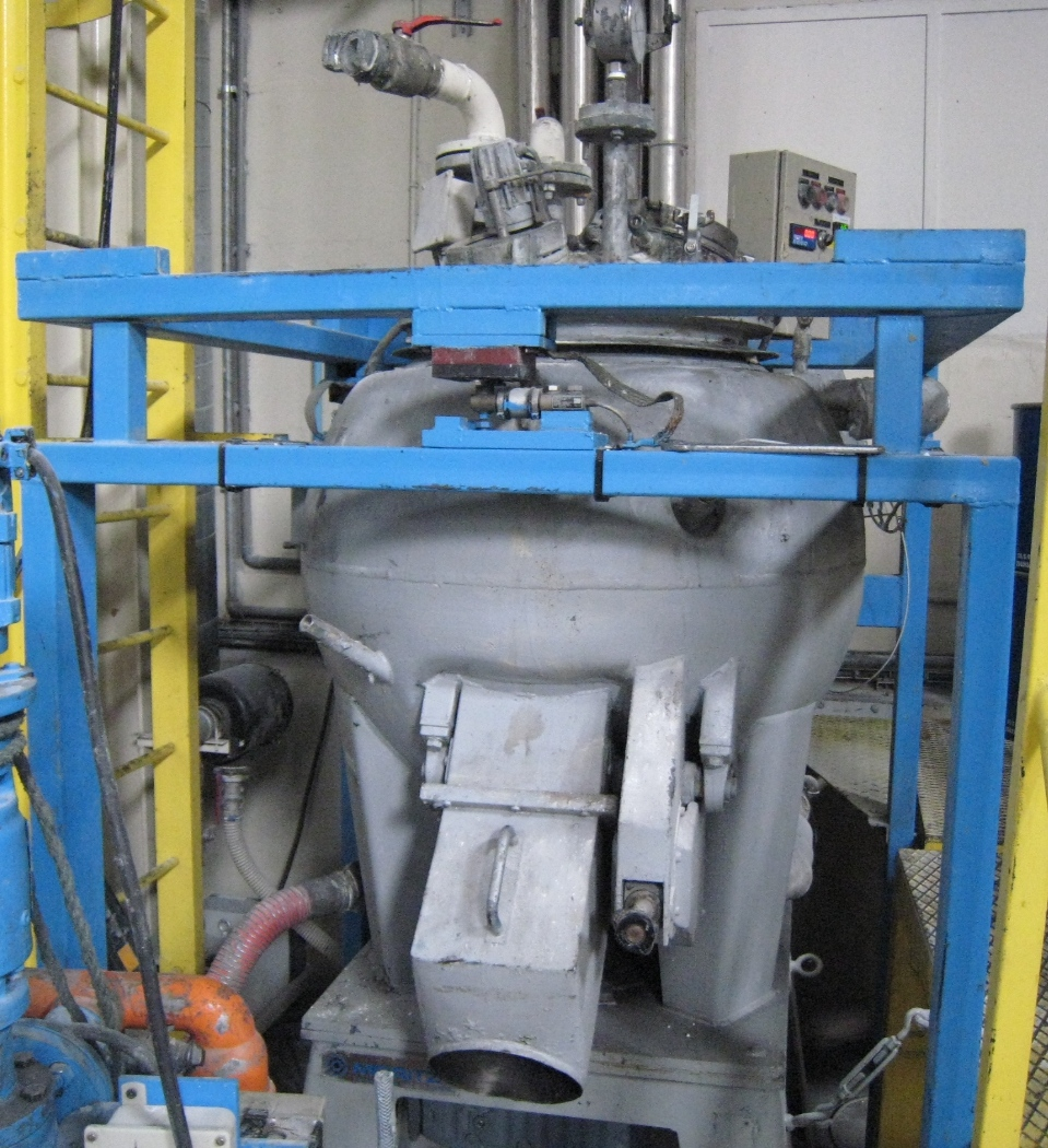 Pilot turbosphere (capacity: 200 L) equipped with water cooling system used to produce PVC plastisols. Vacuum can be done to increase the density of the product.